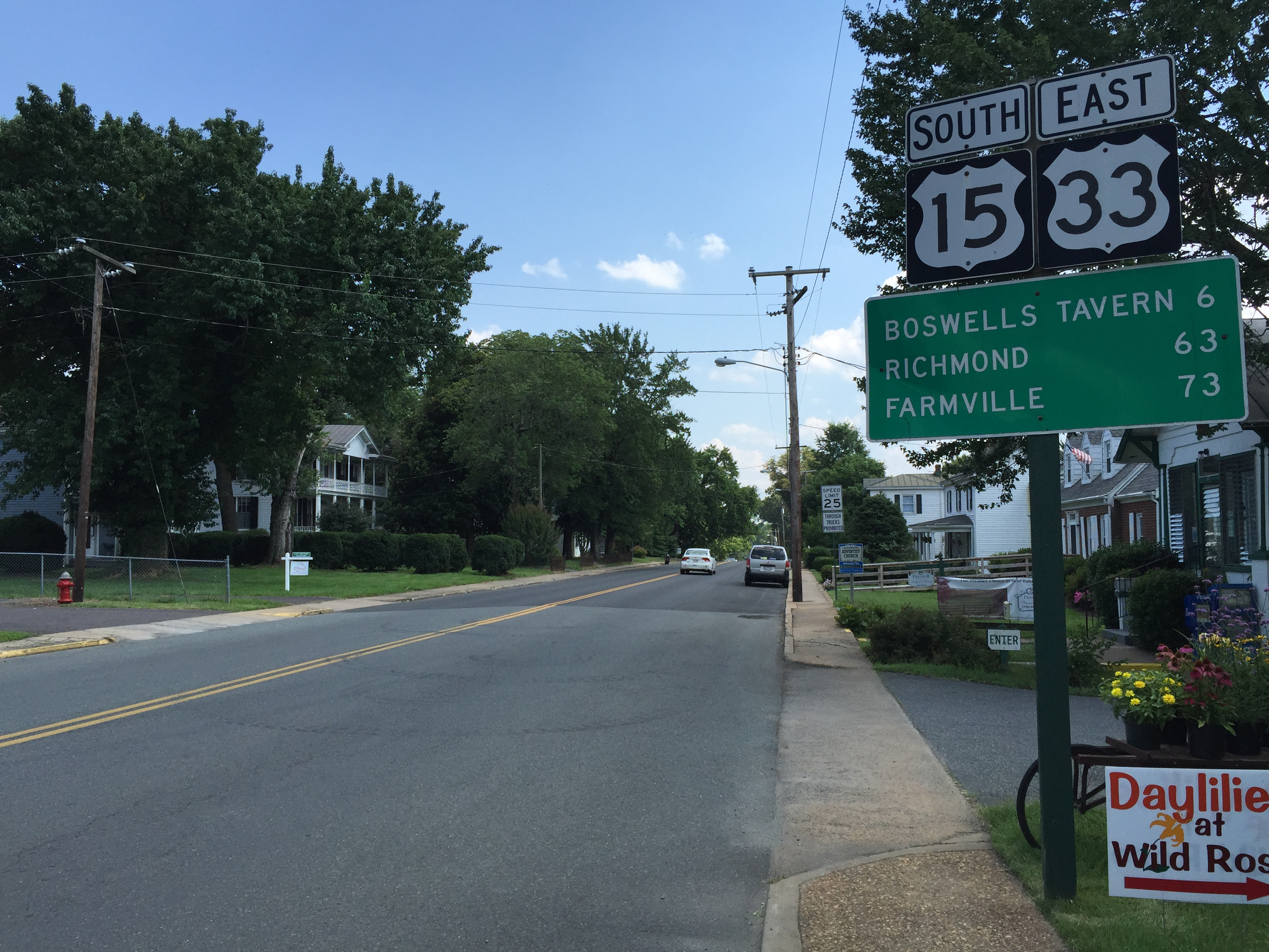 View south along U.S. Route 15 and east along U.S. Route 33 (Main Street) just southeast of Virginia State Route 231 (Gordon Avenue) in Gordonsville, Orange County, Virginia